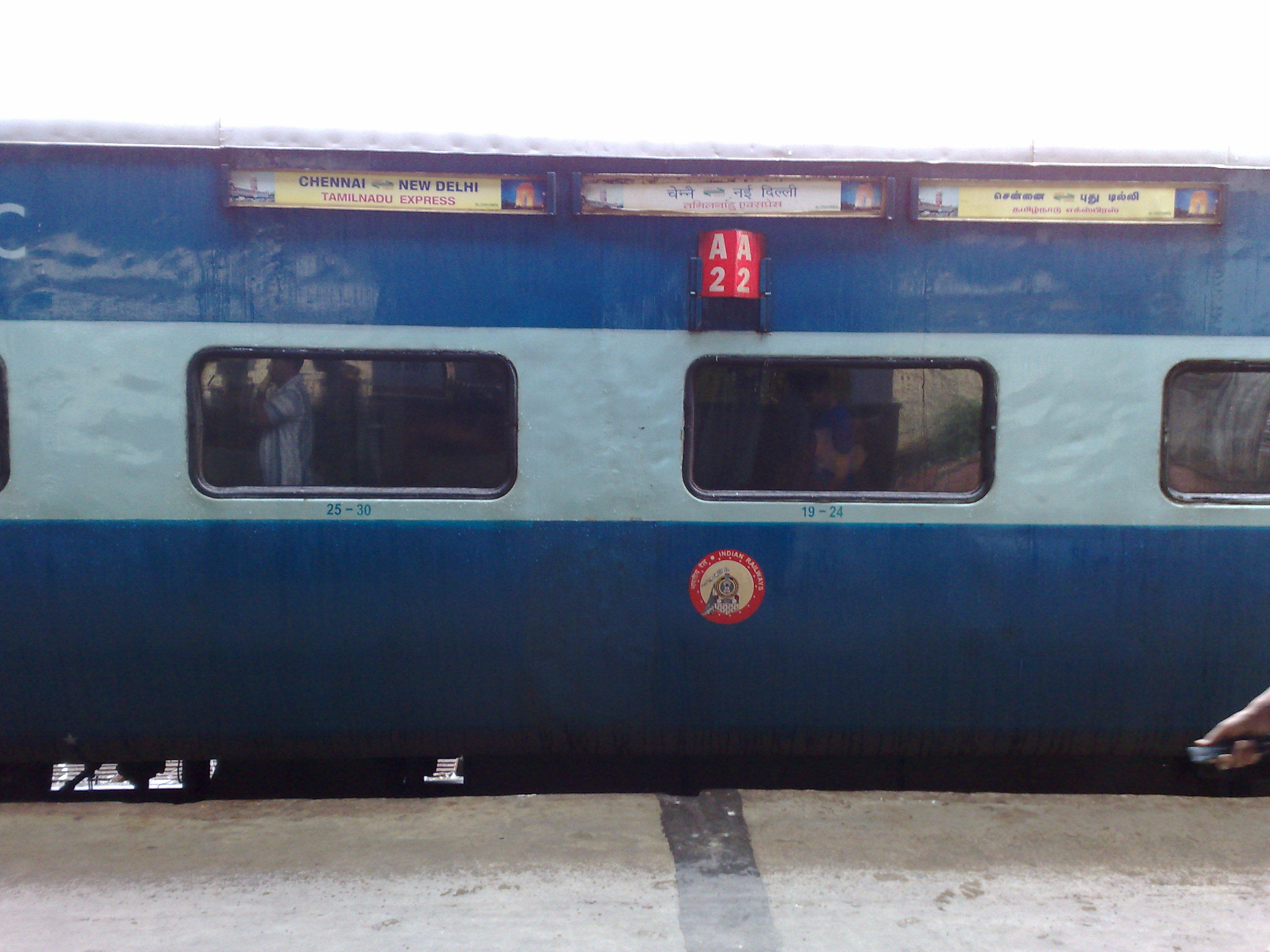 Tamil Nadu Express 2